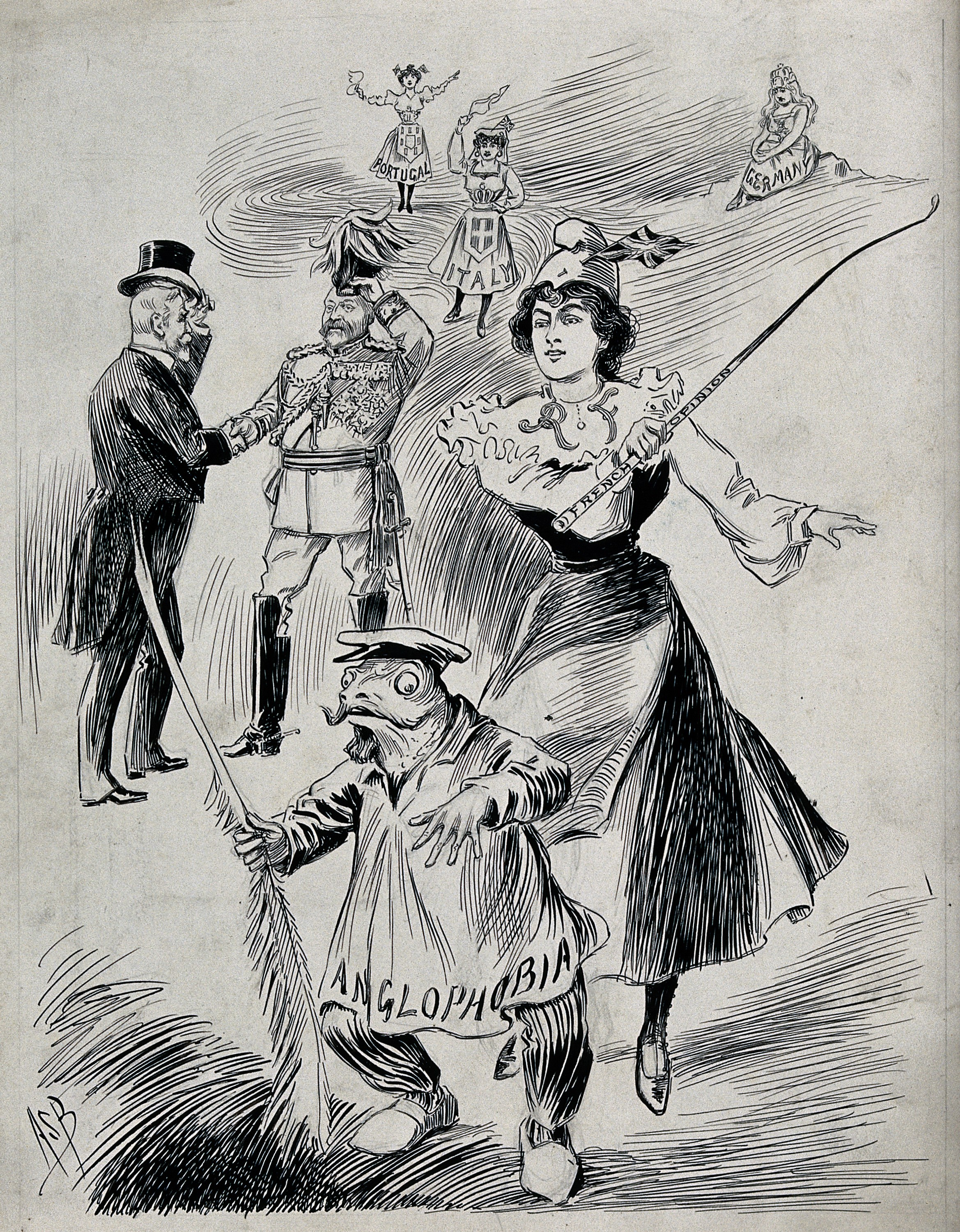 Original caption: République Française: "Go! We have had enough of you for the present".Description by Wellcome Library: The Entente Cordiale: a woman representing France is chasing a frog on which is written "Anglophobia"; King Edward VII and President Émile Loubet shaking hands in the background Iconographic Collections Keywords: Politician; Satire; French; Royalty; A. S. Boyd; Cartoon